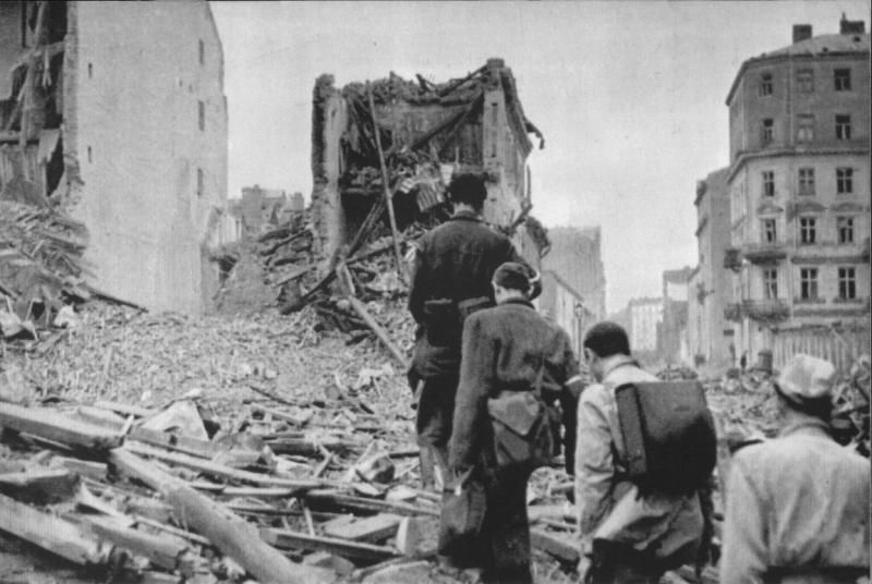 Warsaw Uprising: Patrol from "Agaton" platoon of "Pięść" battalion in ruins of destroyed school at Chłodna 11/13 Street, walking towards Waliców Street.